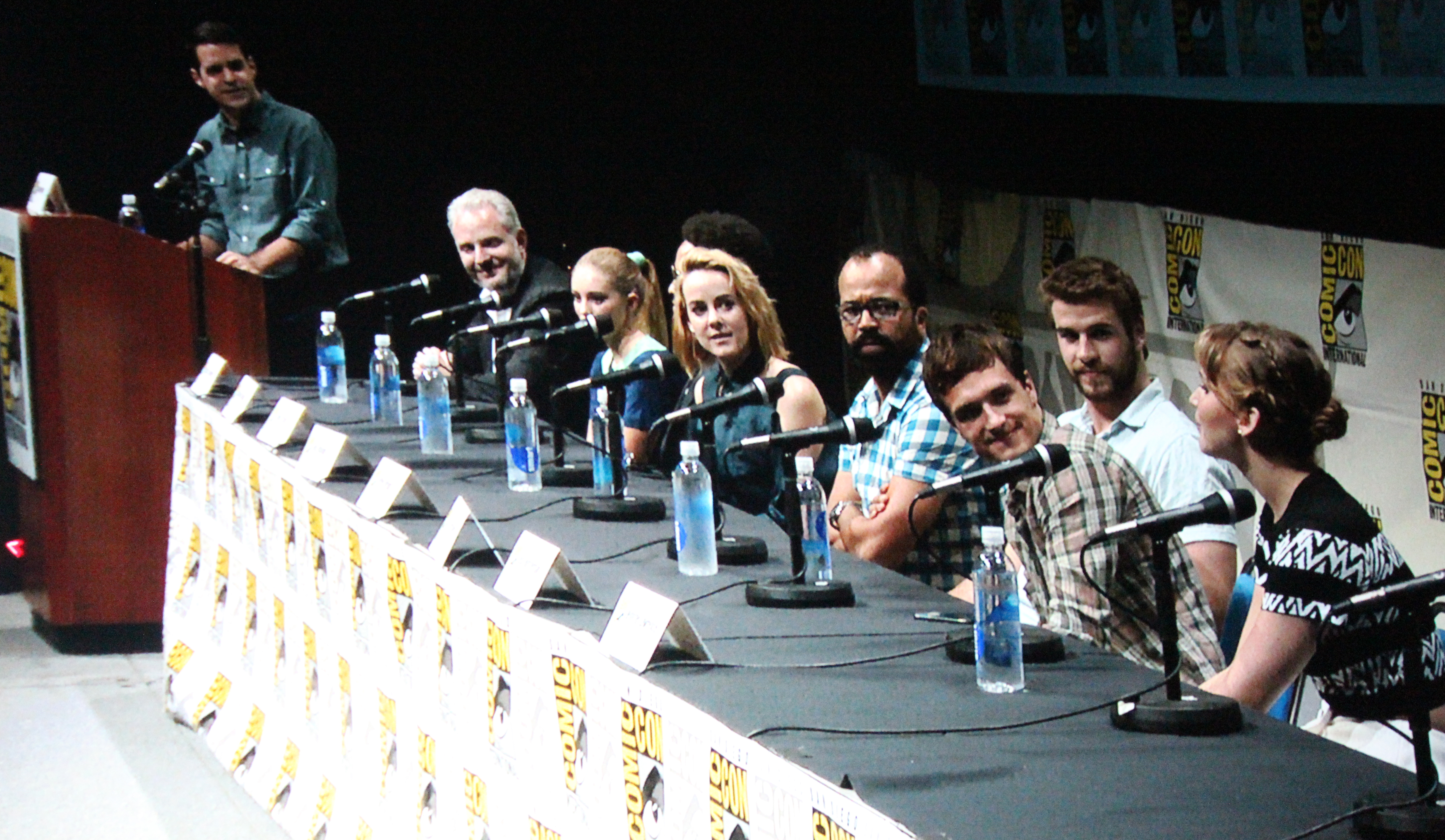 Comic-Con 2013